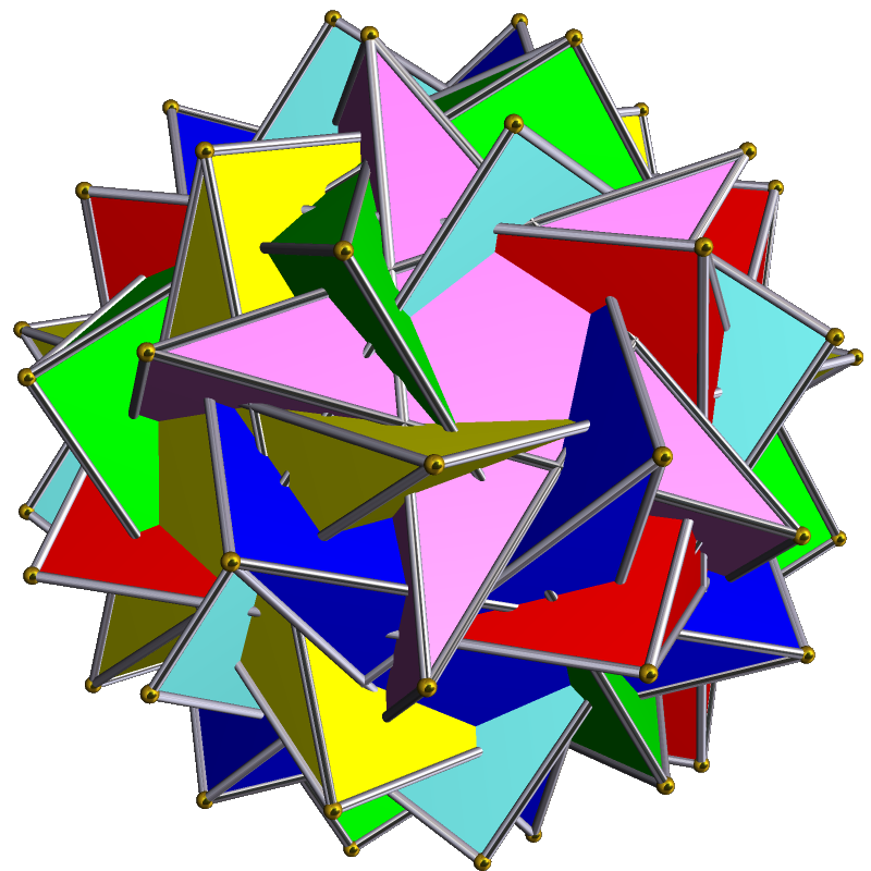 Compound of six pentagrammic prisms Source [1] The copyright holder of this file, Robert Webb, allows anyone to use it for any purpose, provided that the copyright holder is properly attributed. Redistribution, derivative work, commercial use, and all other use is permitted. Attribution: Attribution must be given to Robert Webb's Stella software as the creator of this image along with a link to the website: A complimentary copy of any book or poster using images from the Software would also be appreciated where feasible. This work is free and may be used by anyone for any purpose. If you wish to use this content, you do not need to request permission as long as you follow any licensing requirements mentioned on this page.